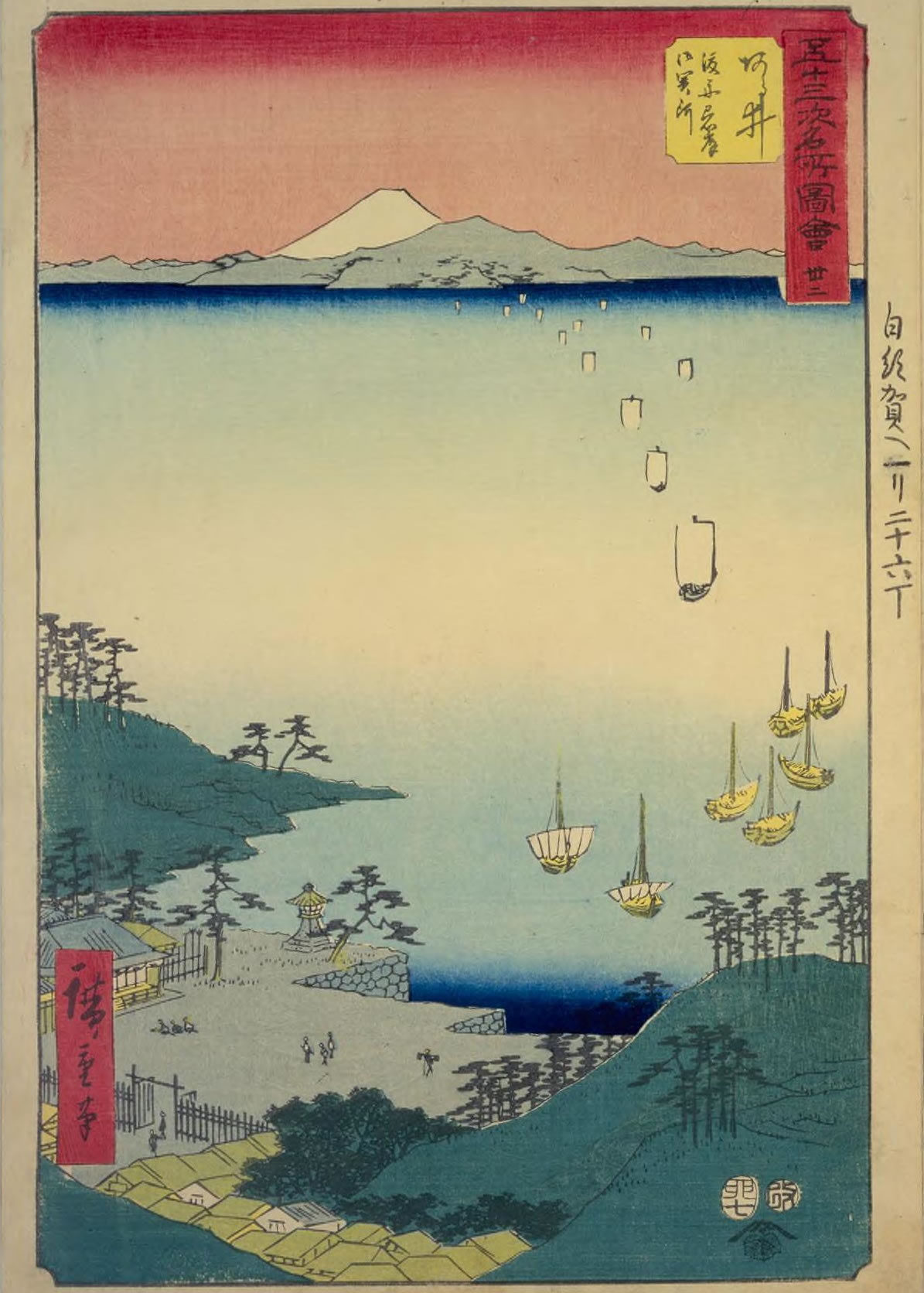 "Famous Places of the Fifty-three Stations of the Tōkaidō (GojūSanTsugi-MeishoZu'e), No. 32, Arai" : Ferries Approaching the Government Barrier at Arai.